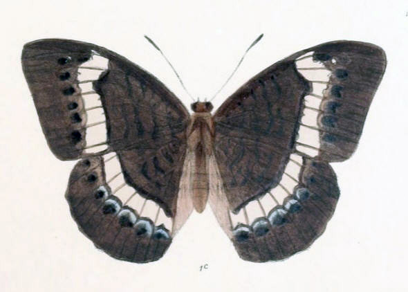 Haramba cibaritis